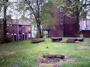 Last resting place of the mortal remains of George Marsh, St Giles Cemetery, Boughton.